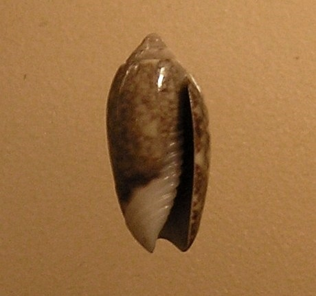 Oliva faba F. P. Marrat, 1867, a sea snail from the family Olividae; Philippines